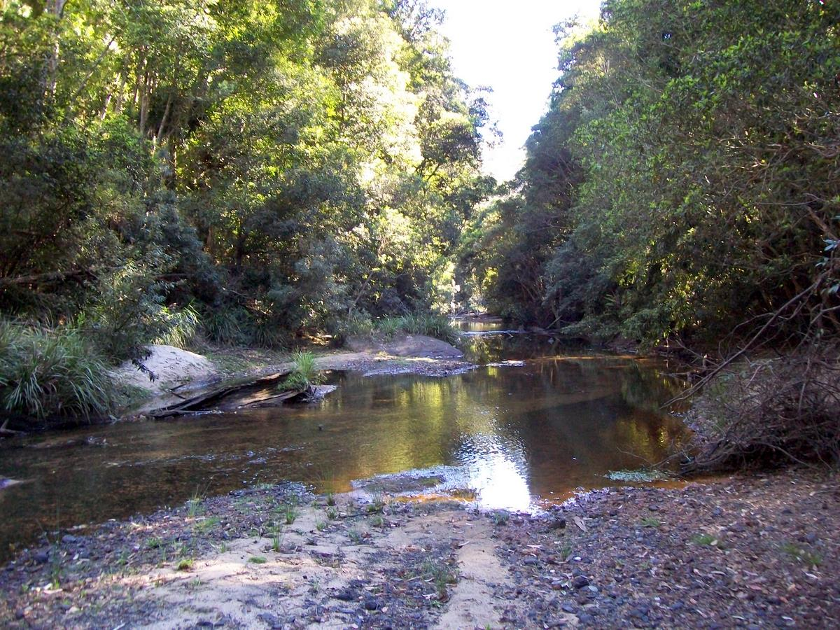 Hacking River near Lady Carrington Drive, Royal National Park, Australia